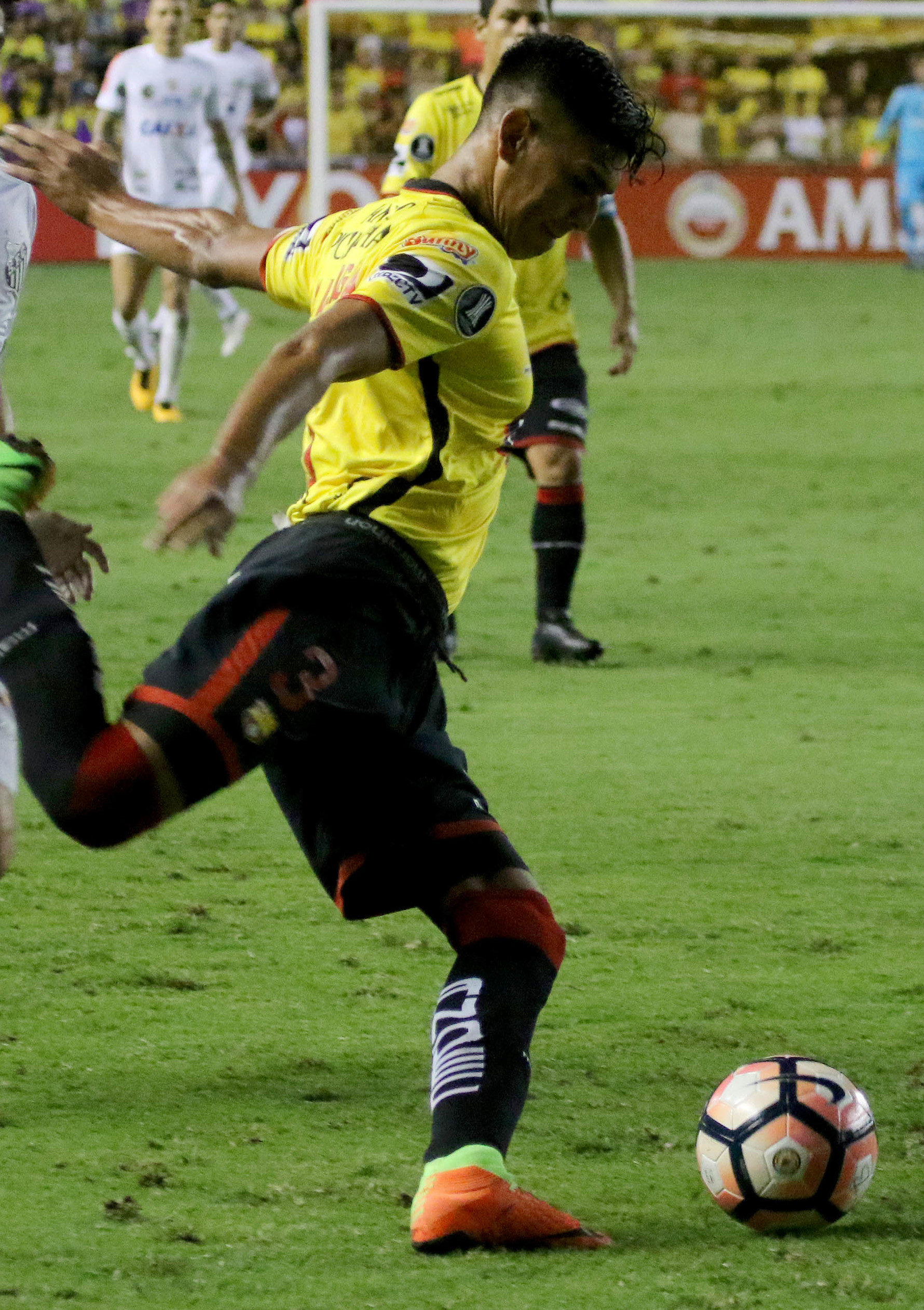 Guayaquil, 13 de septiembre del 2017 (Andes).-En el estadio Monumental Barcelona de Ecuador enfrenta al Santos de Brasil en partido de ida por cuartos de final de la Copa LibertadoresFoto:Andes/César Muñoz